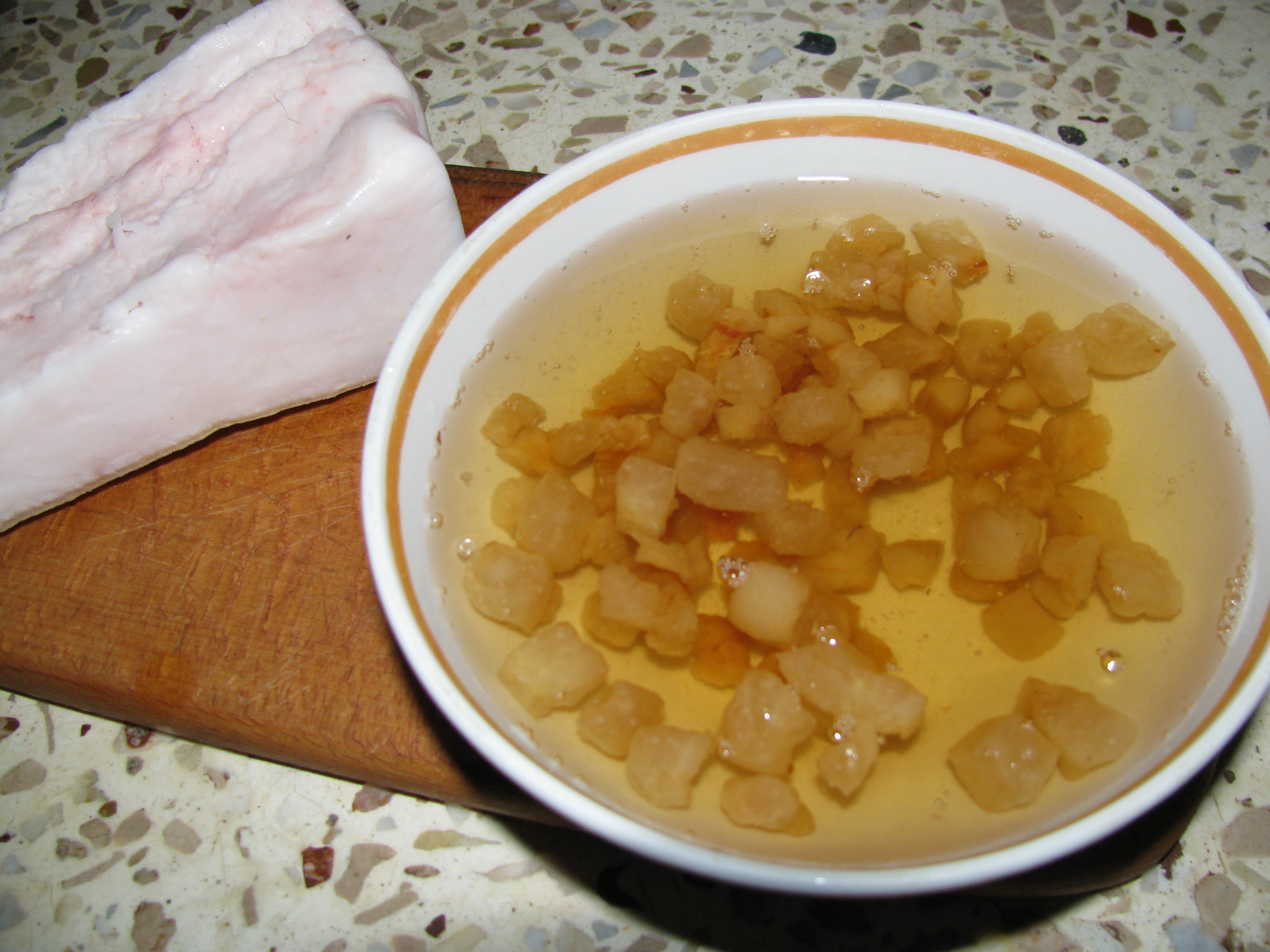 Melted Lard with pork rind